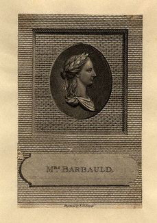 Portrait of Anna Laetitia Barbauld, line engraving, 4 3/8 in. x 2 3/4 in. (112 mm x 72 mm)